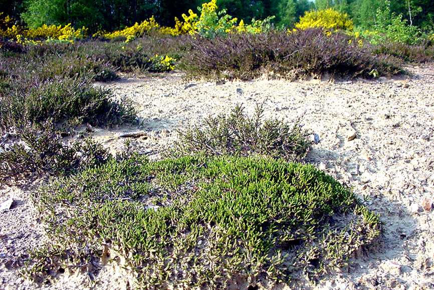 pioneer species (bacteria + algae) on sand, and Erica cinerea (Helfaut, Pas de Calais, north of france)